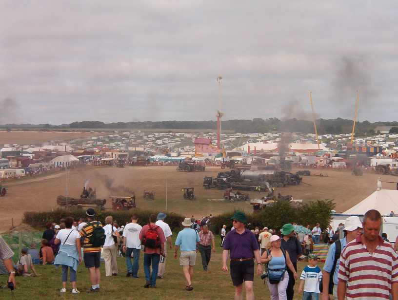 My digital photograph taken in 2004